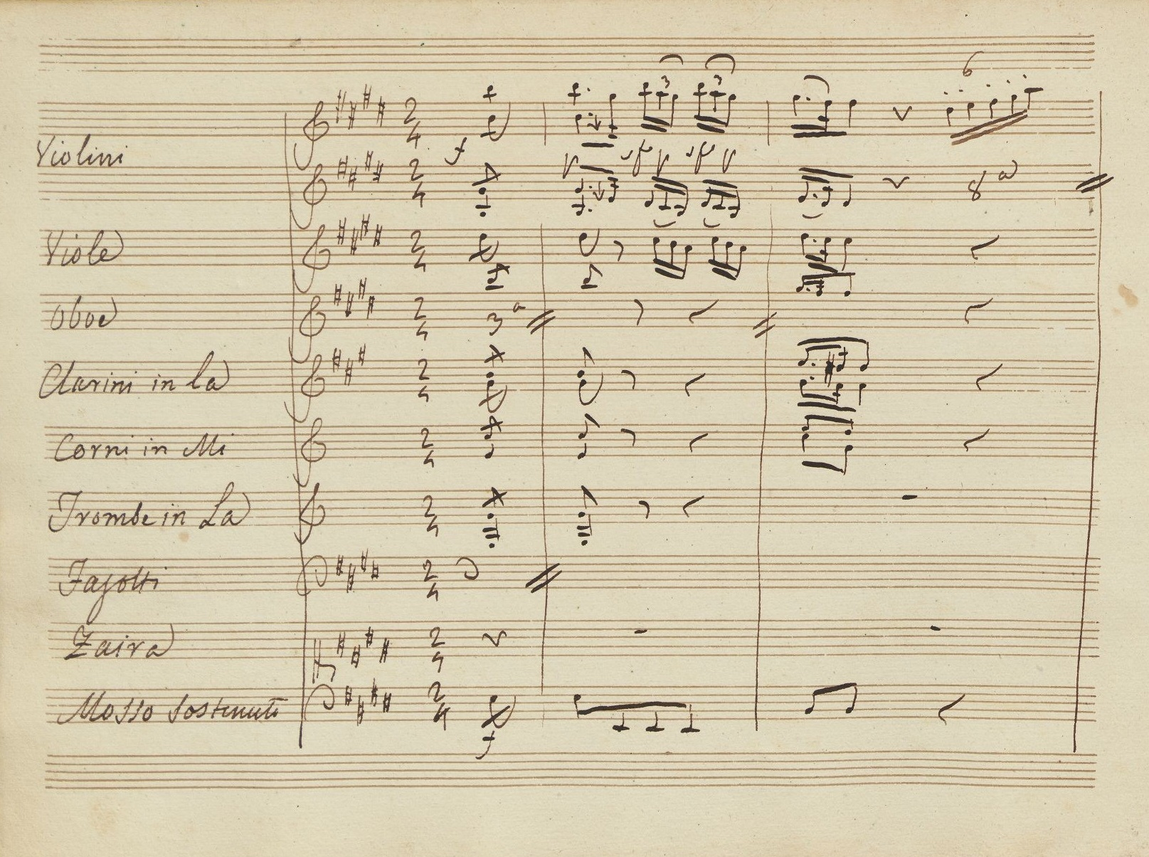 Sample page from the manuscript sheet music for Zaira. Frenar vorrei le lagrime, by Marcos Antônio da Fonseca Portugal (1762-1830). Full score digitized: 2010TW-28 (17b), Houghton Library, Harvard University